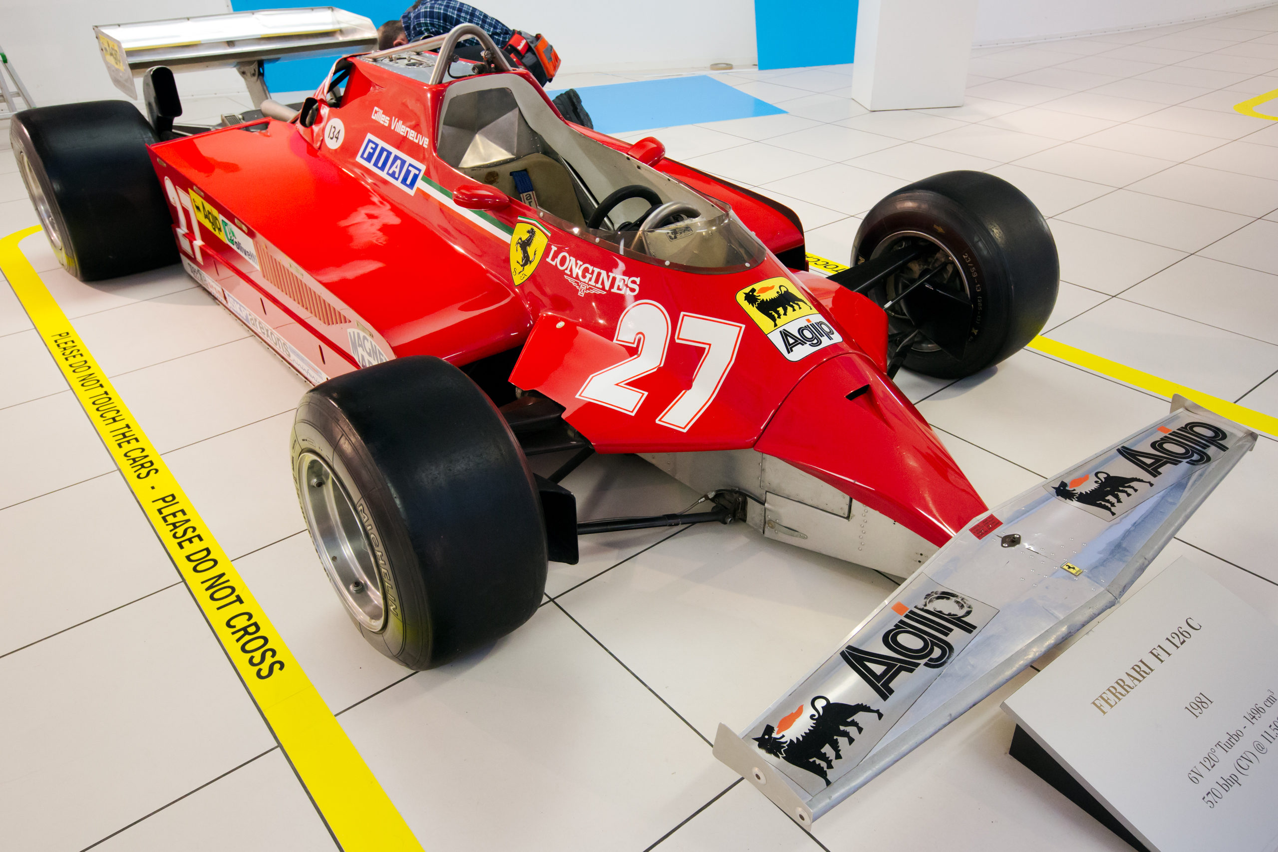 Ferrari 126CK